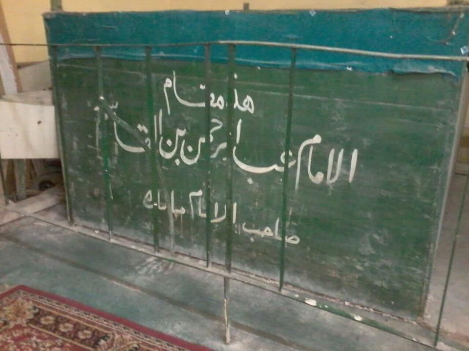 The tomb of Ibn al-Qasim, the student of Imam Malik in Qarafa, Cairo.